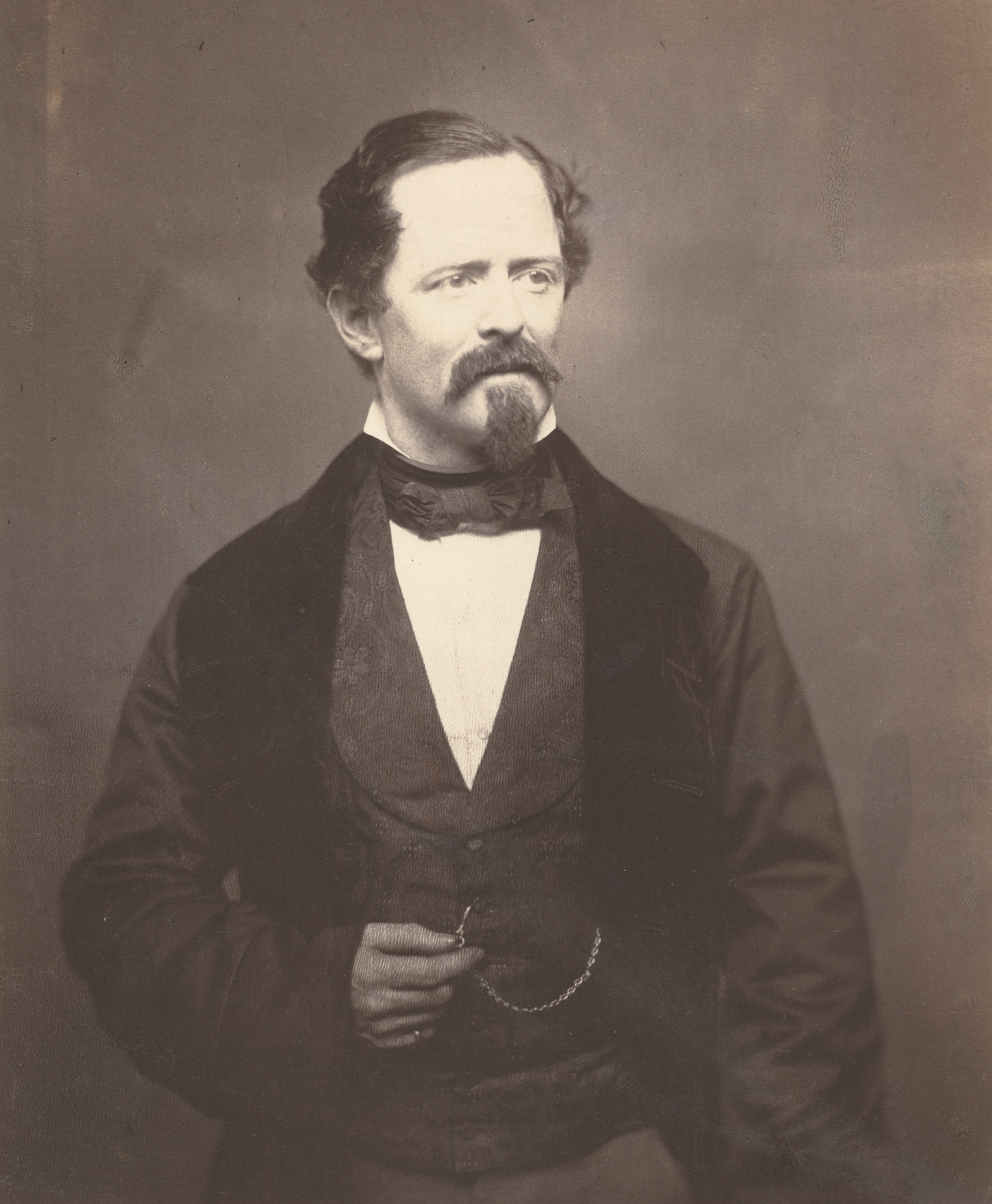 Portrait photograph of William Henry Powell.